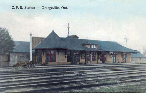 Early 1900's postcard showing the CPR station in Orangeville, Ontario.